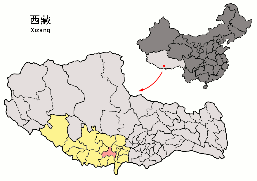 Location of Sa'gya County (pink) and Xigazê Prefecture (yellow) within Tibet (Xizang) autonomous region of China